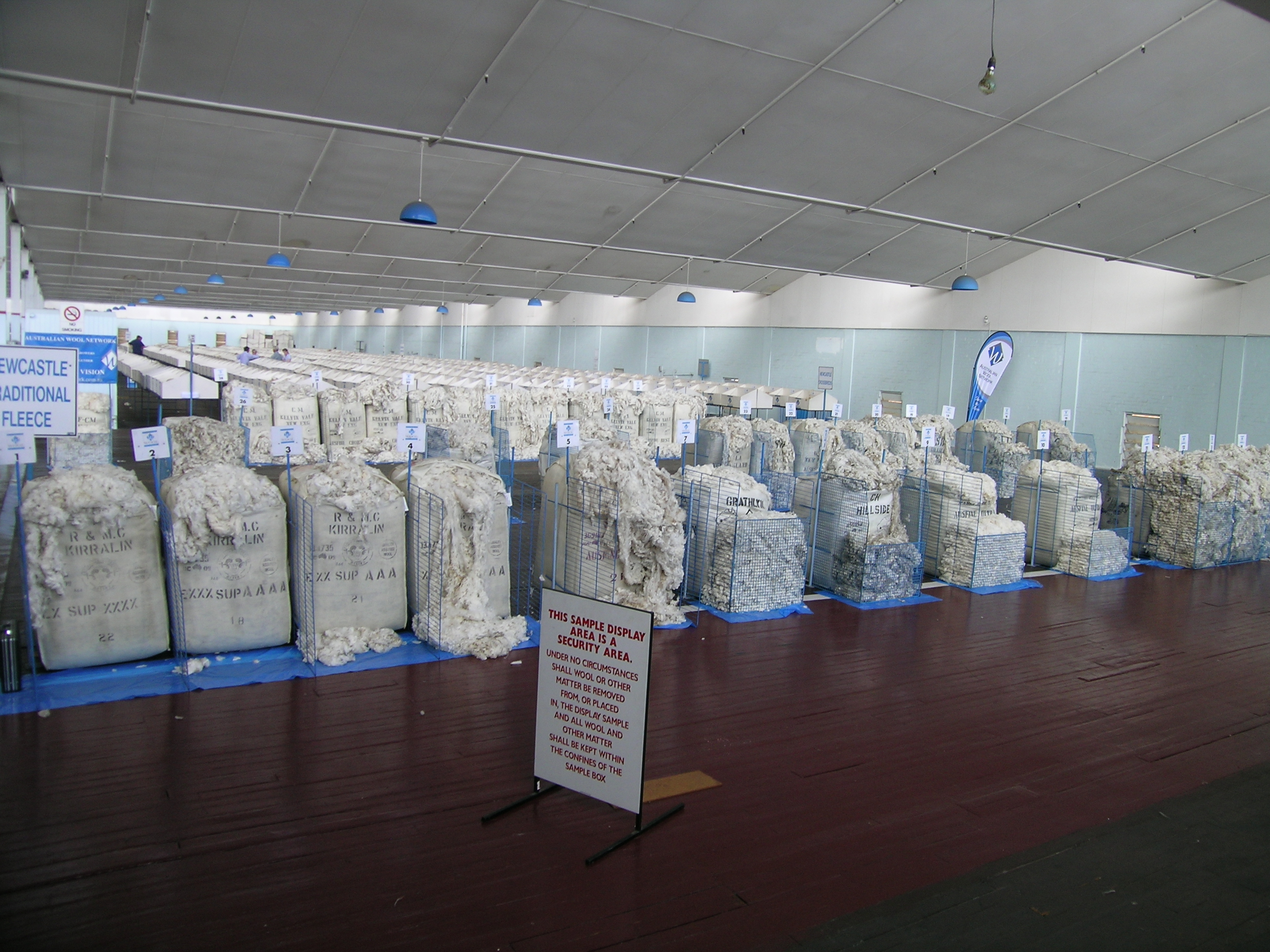 Traditionally displayed wool in foreground, with sample wool in boxes behind, show floor, Newcastle, NSW